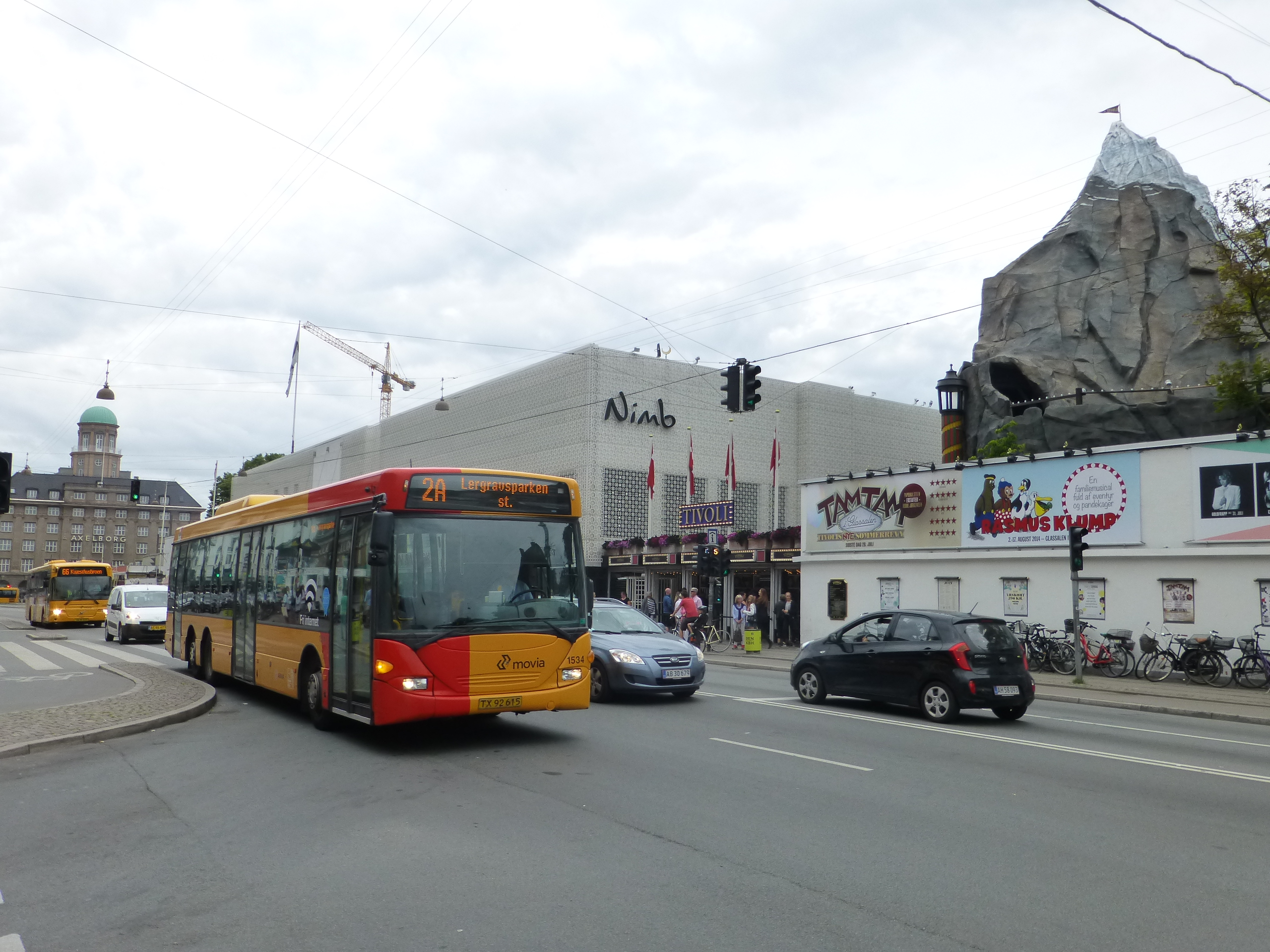 Movia bus line 2A on Bernstorffsgade at Copenhagen Central Station. The mountain at the right is a part of the old roller coaster in the amusement park Tivoli.